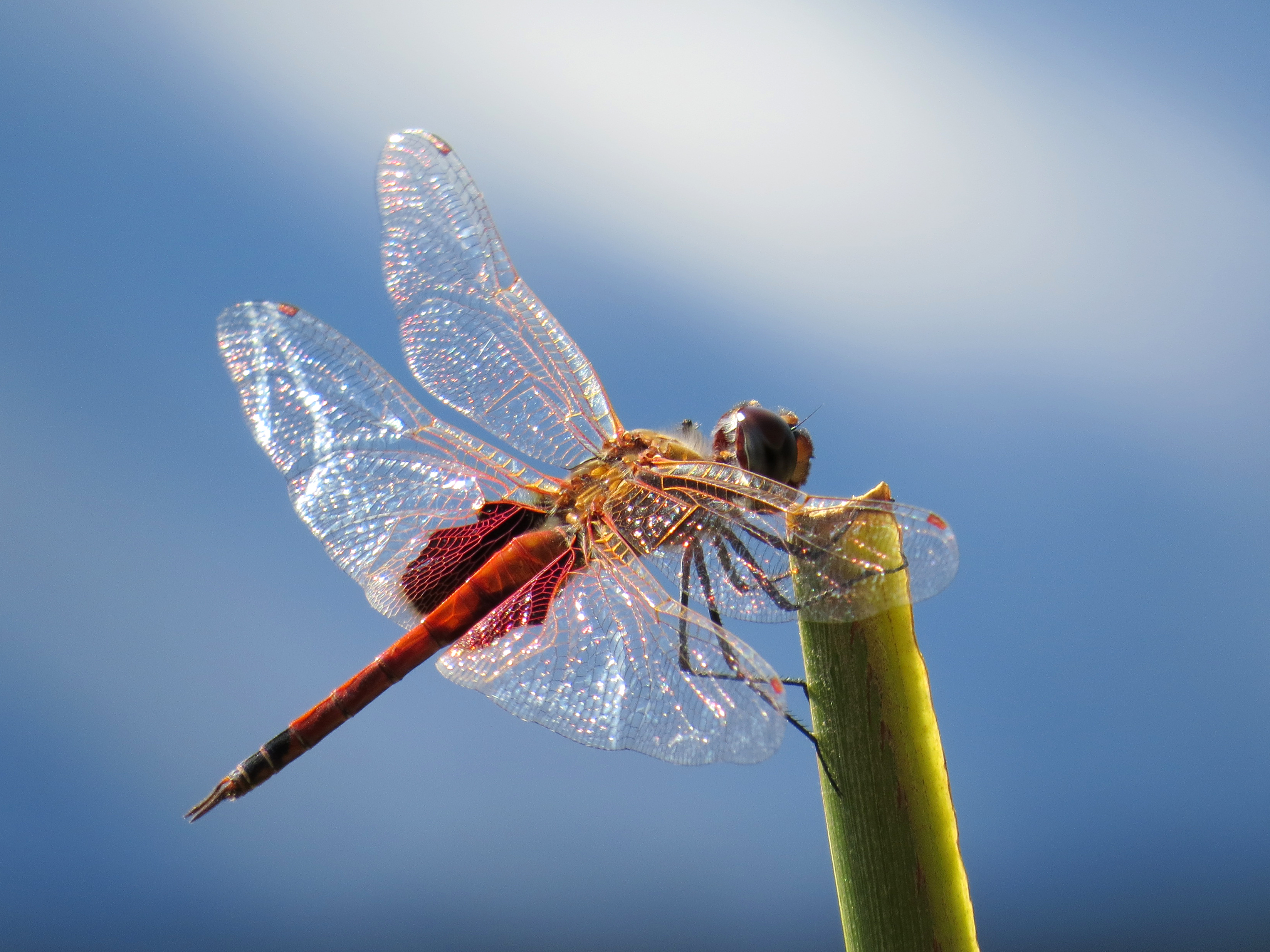 A male "Common glider" (Tramea loewii) dragonfly of Australia, photographed in Darwin, Northern Territory. Identified by a reddish-brown abdomen with black tip, and saddle-like markings on the inner portion of the hind wing. It inhabits mostly still waters, and is often seen at some height above the ground. The female is a dull brown colour, with similar wing markings. The wing-span is 80-90mm. Until March 2015 it was known as Trapezostigma loewii.